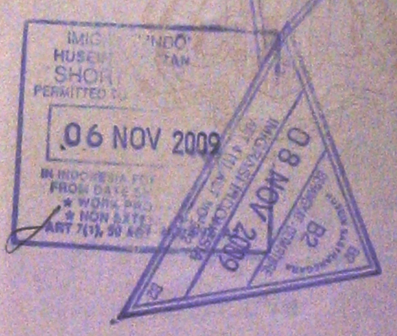 Passport stamps from Bandung's Husein Sastranegara airport